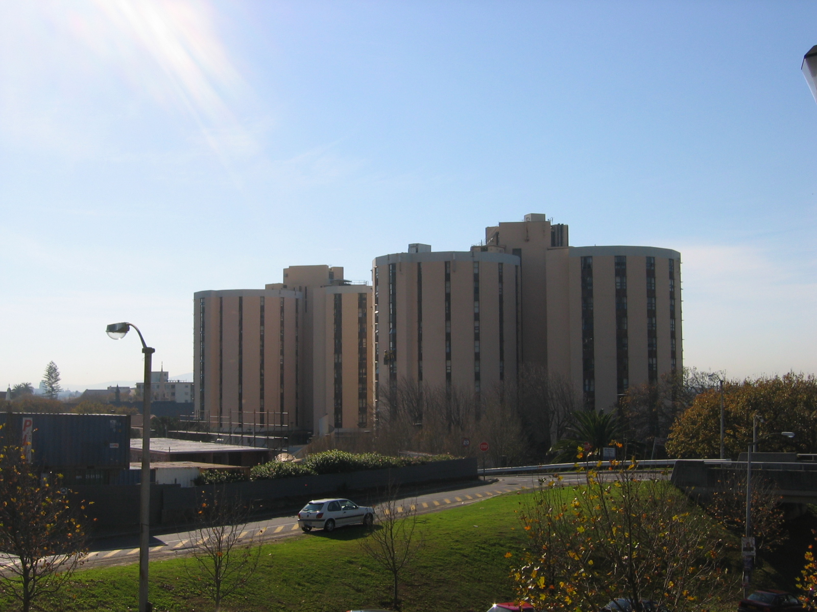 Leo Marquard Hall and Tugwell Hall, two of the largest residences at the University of Cape Town.